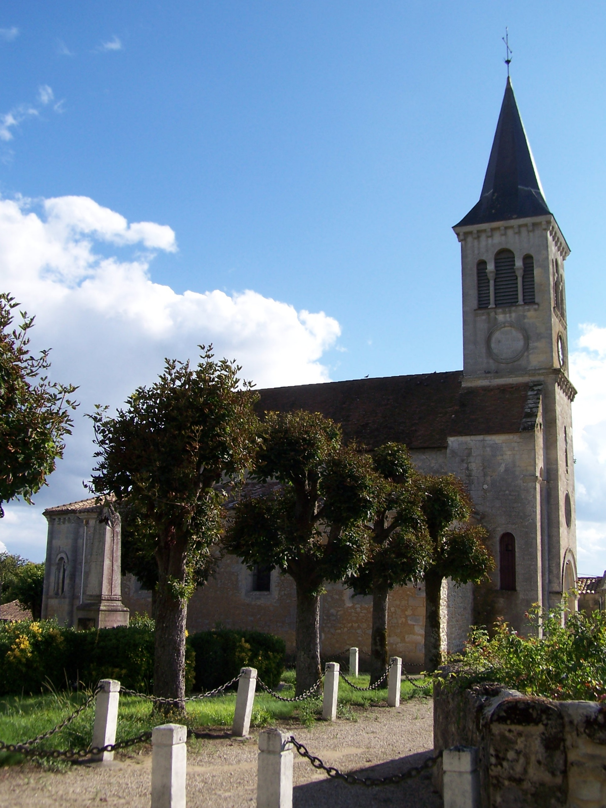 Our Lady's church of :en:Lestiac-sur-Garonne| , (Gironde, France) .